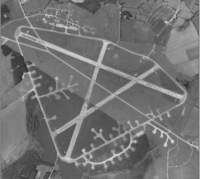 Aerial photograph of RAF Davidstow Moor Airfield, England.